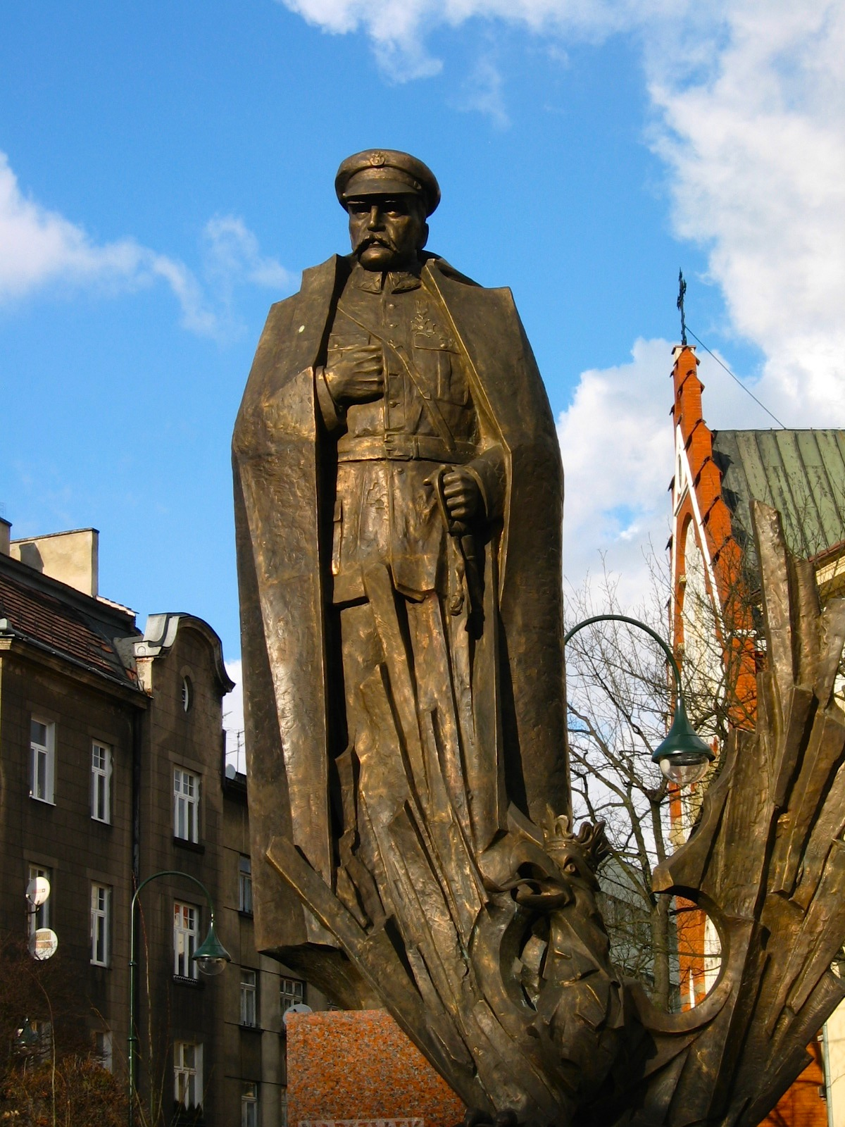 The monument to Marshal Józef Piłsudski in Kraków